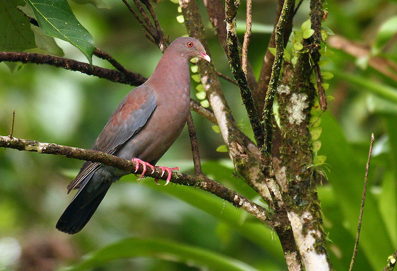 Red-billed Pigeon (Patagioenas flavirostris) at La Selva entrance road, Costa Rica, Caribbean lowlands.